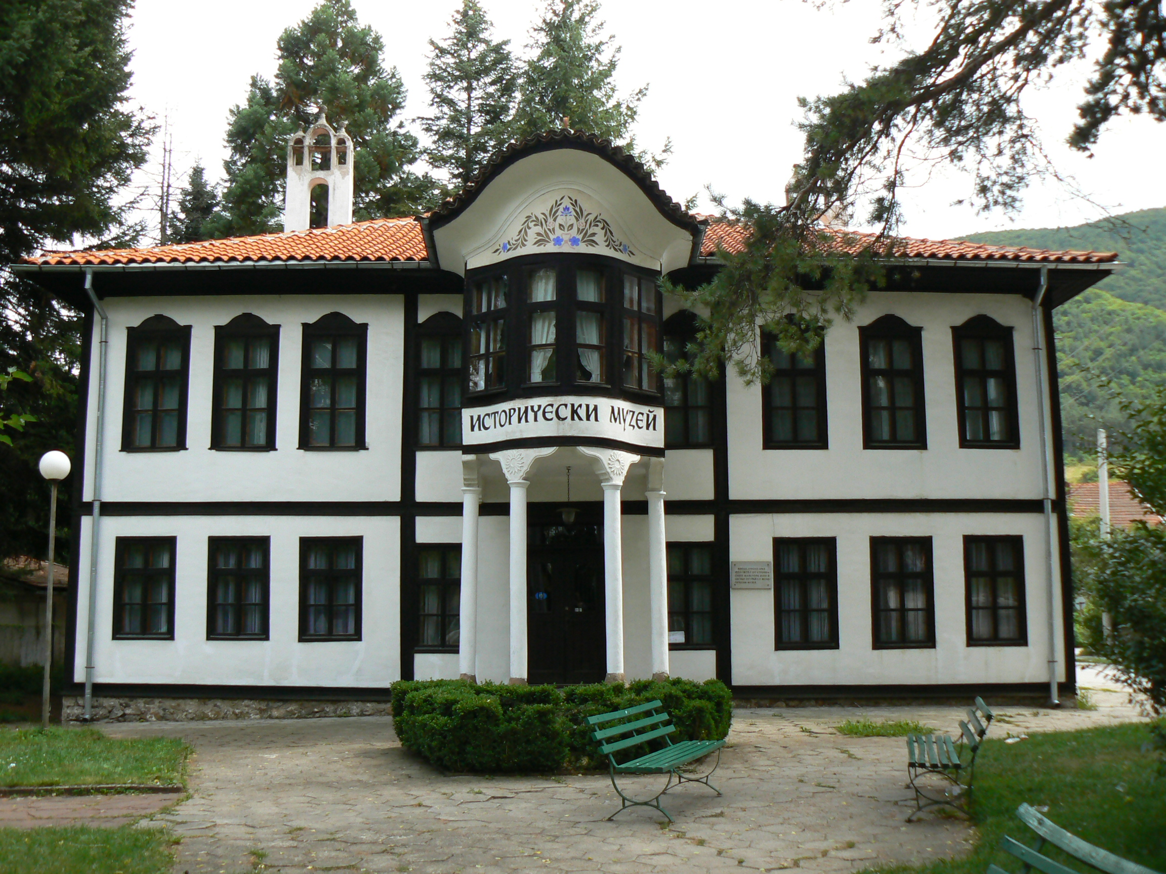 The History Museum of Etropole, Bulgaria